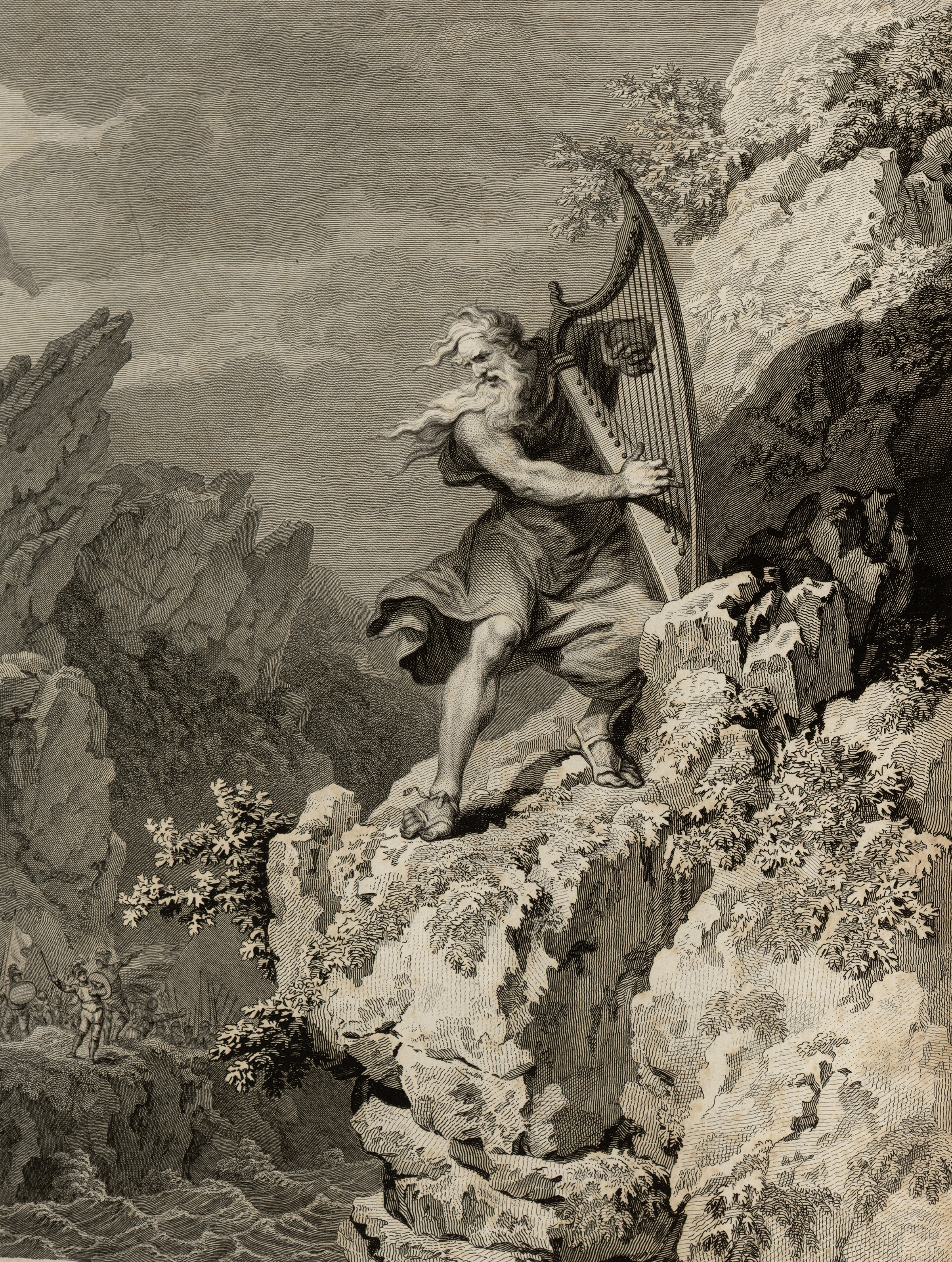 An image from a set of 8 extra-illustrated volumes of A tour in Wales by Thomas Pennant (1726-1798) that chronicle the three journeys he made through Wales between 1773 and 1776. These volumes are unique because they were compiled for Pennant's own library at Downing. This edition was produced in 1781. The volumes include a number of original drawings by Moses Griffiths, Ingleby and other well known artists of the period. Thomas Pennant (1726-1798)